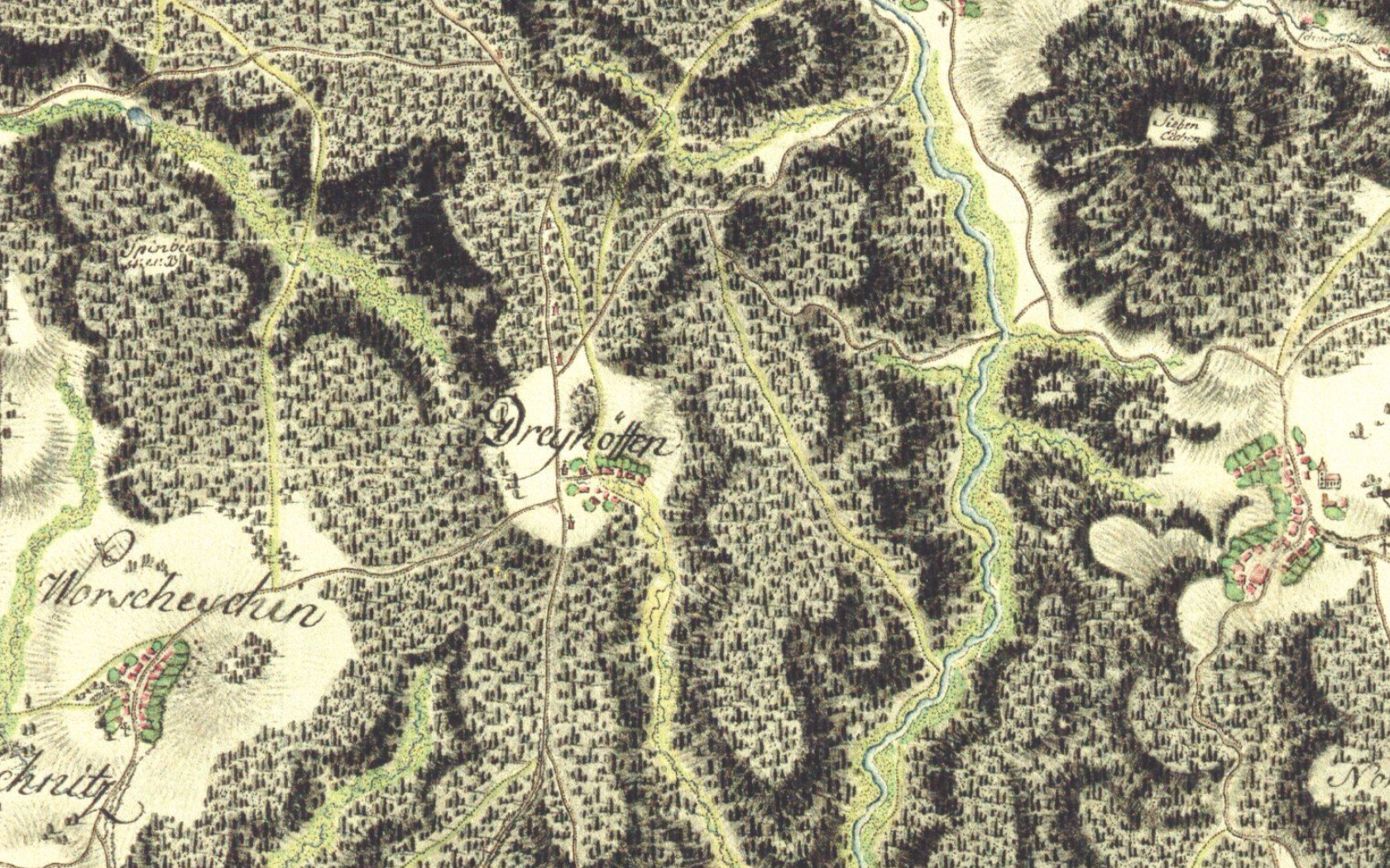 Útěchov, Brno, Czech Republic - First Military Mapping Survey of Austrian Empire